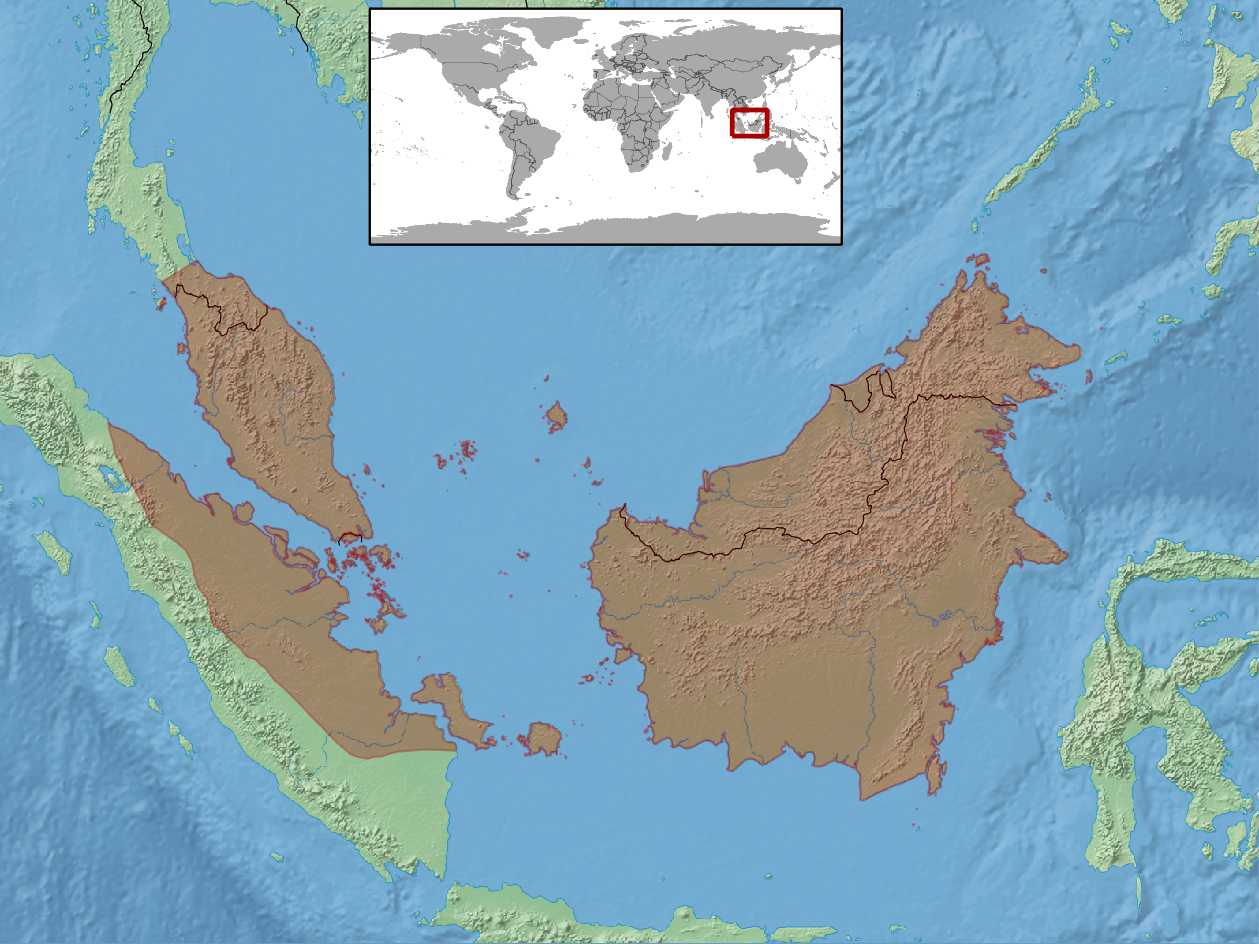 geographic distribution of Calamaria leucogaster (Native: Indonesia (Kalimantan, Sumatera); Malaysia (Peninsular Malaysia, Sabah, Sarawak))